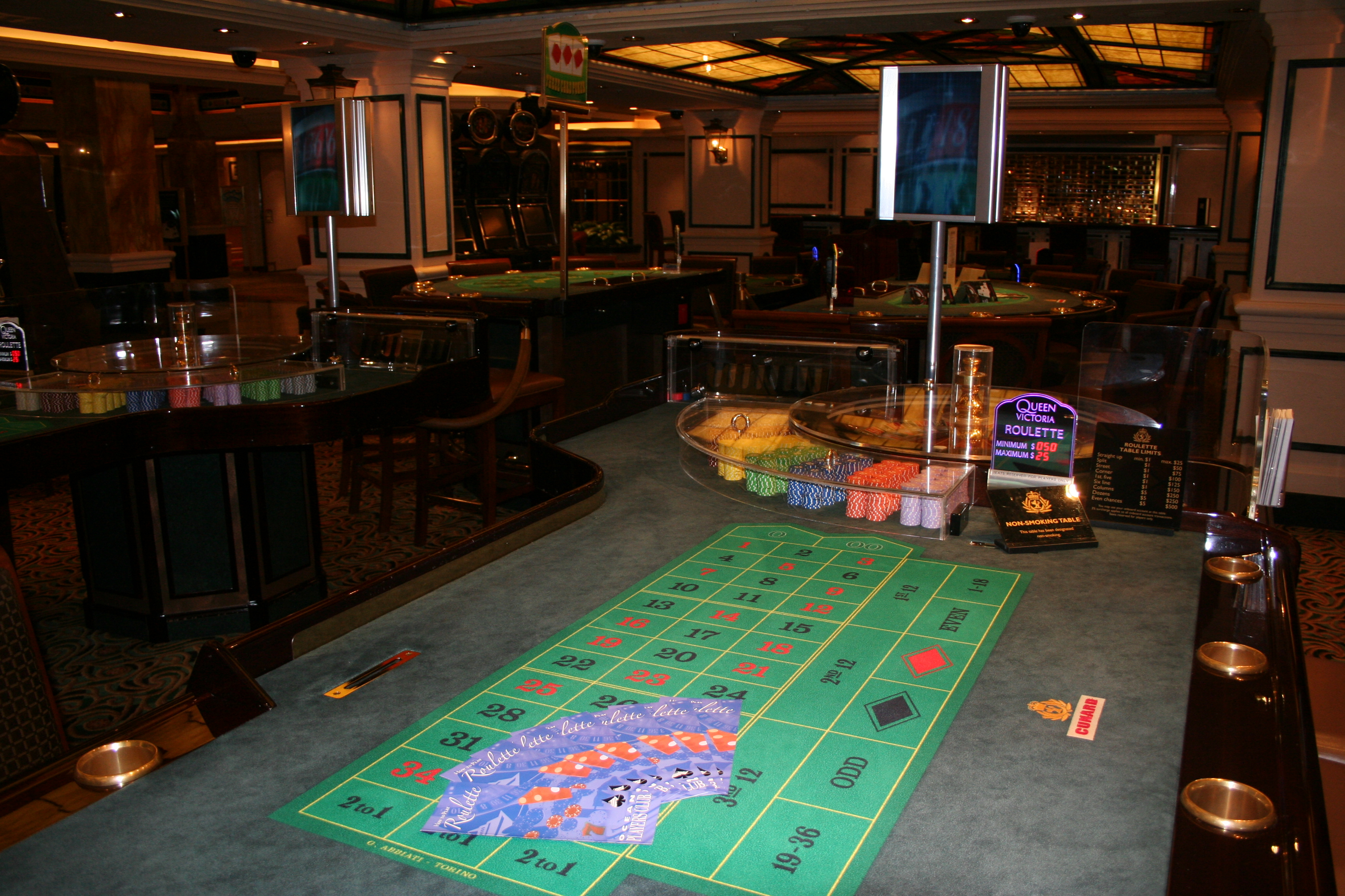 MS Queen Victoria Gambling, The RB88 team Is a reliable website for football news